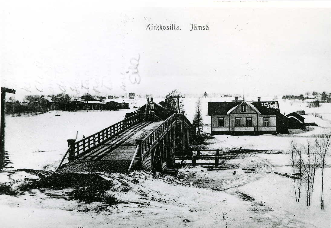 Kirkkosilta over river Jämsänjoki in Jämsä, Finland